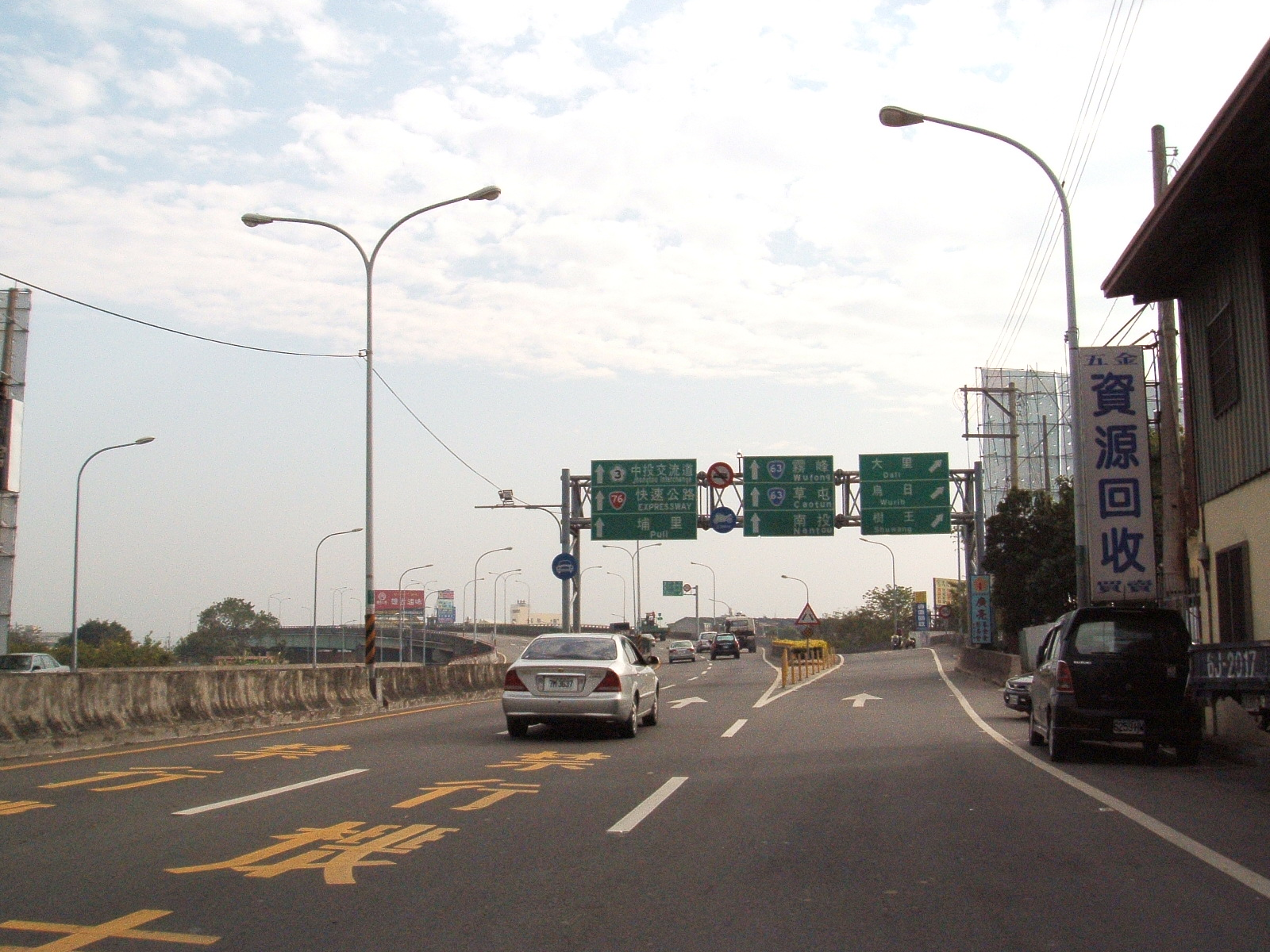 Wuquan S. Rd., Taichung City, Taiwan(R.O.C.)